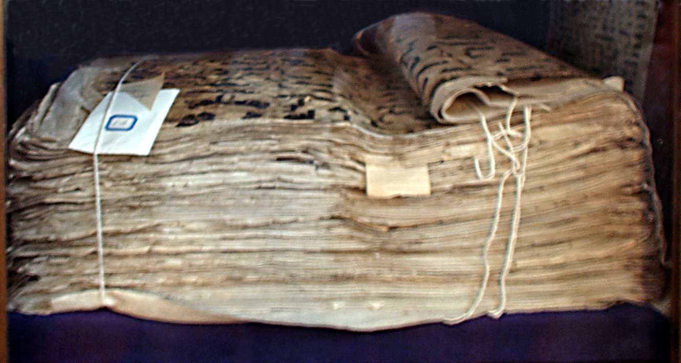 A qur'an from the 9th century. It is an alleged 7th century original of the edition of the third caliph Uthman (see Uthman Qur'an) but this is disputed since it is written in kufic. The qur'an is located in the small Telyashayakh mosque in Tashkent. Edit by Wikipeder: Hue and distortion fixed, cropped.